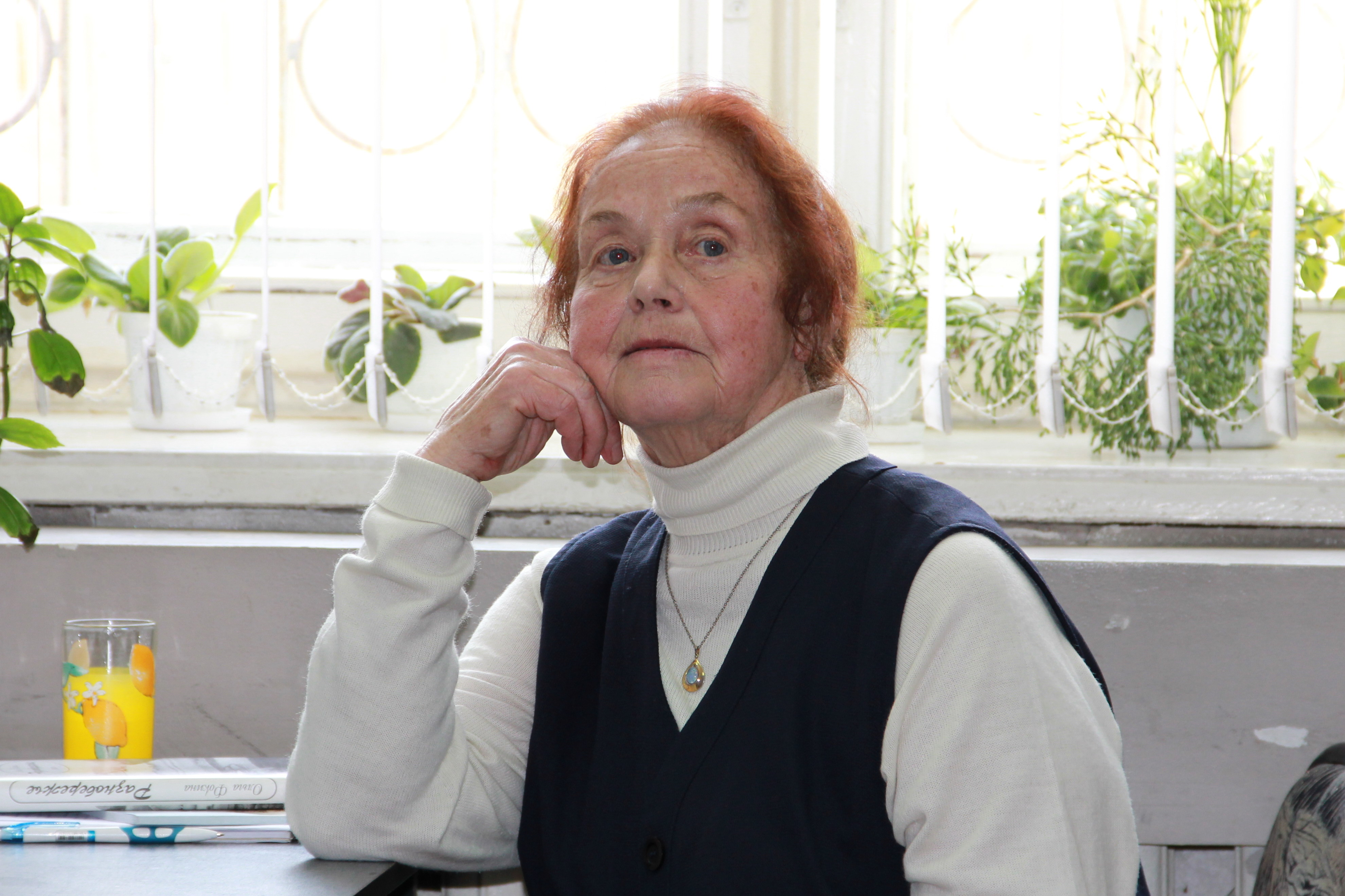 Russia, Vologda, poet Fokina Olga Aleksandrovna